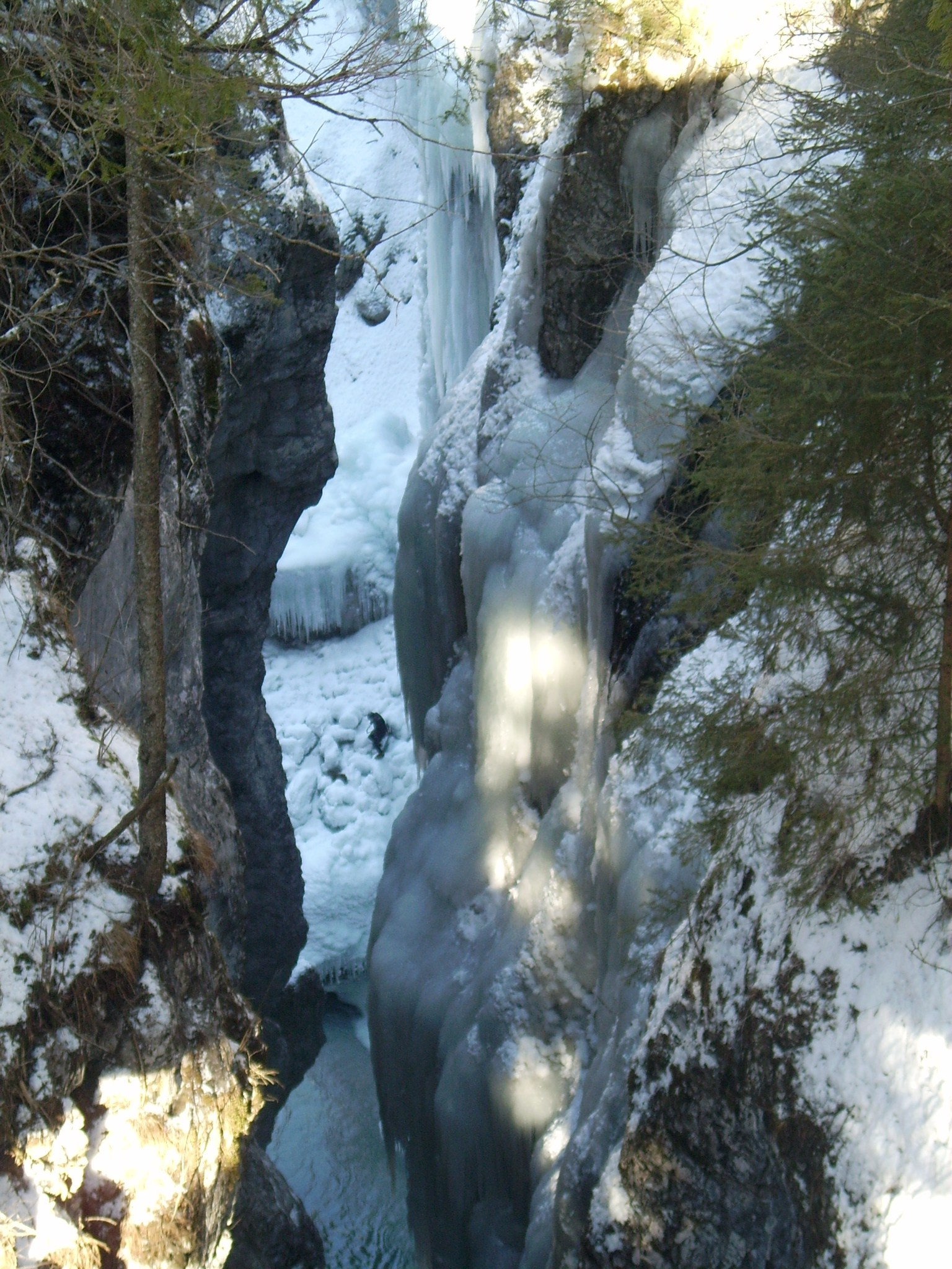 Acquatona's gorge of PIave River in Sappada ,Belluno,Italy